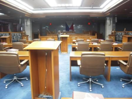 Senate of the Philippines where senate hearings were held